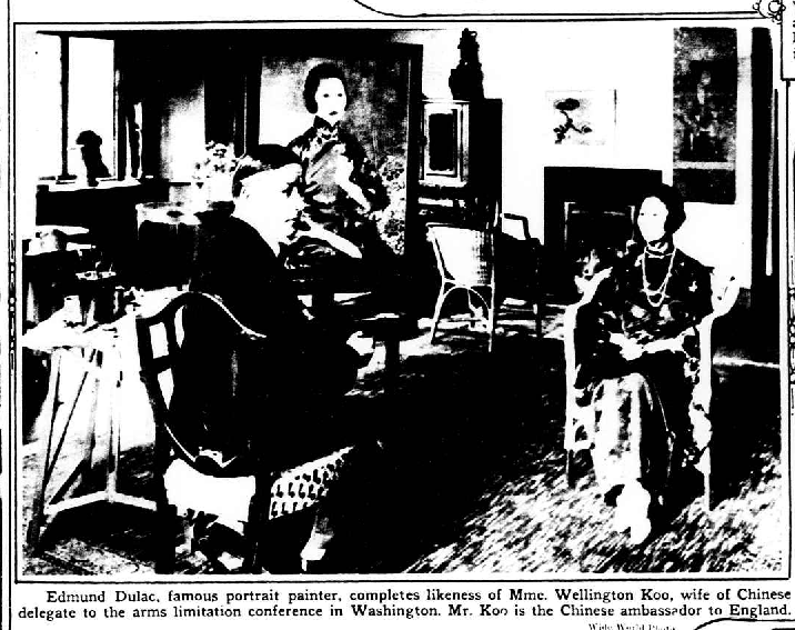 Newspaper photo of Edmund Dulac.